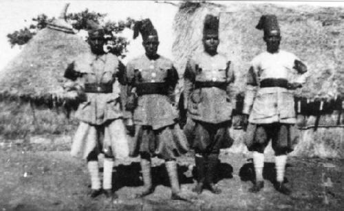 Photo of a group of Zaptié (colonial military police) from Italian Somalia in 1939